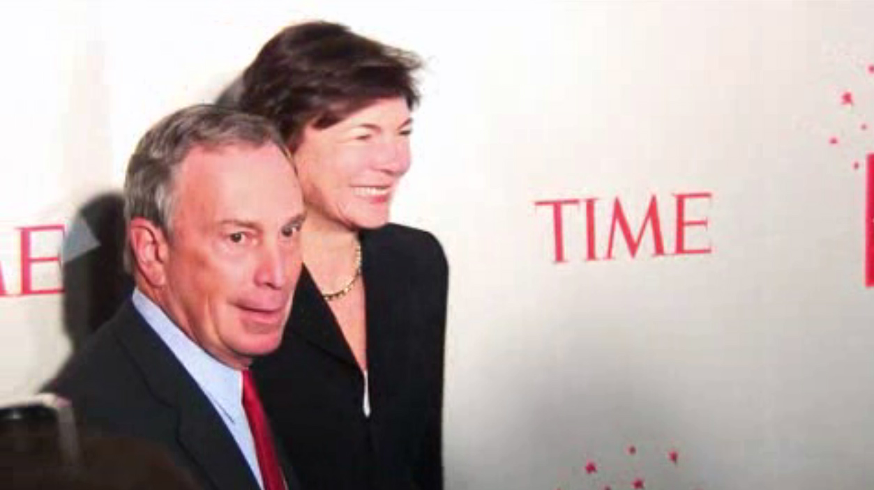 Time 100 2006 gala, Michael Bloomberg, with his current girlfriend, Diana Taylor.